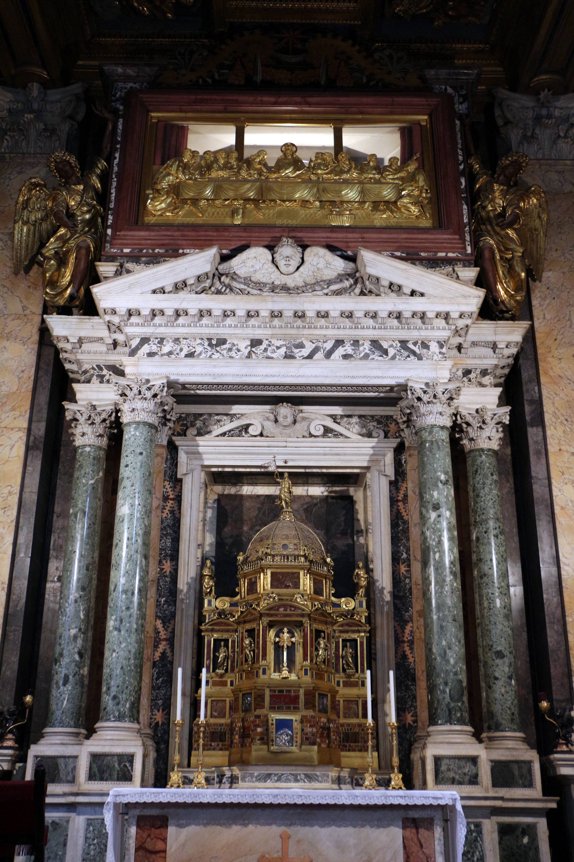 San Giovanni in Laterano (Rome) - Interior